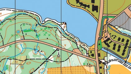 Orienteering map of "Bygholm Skov" just outside Horsens, Denmark. Map uploaded with permission from Horsens Orienteringsklub, c/o chairman Lars Sørensen.